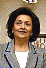 Suzanne Mubarak, who was the First Lady of Egypt